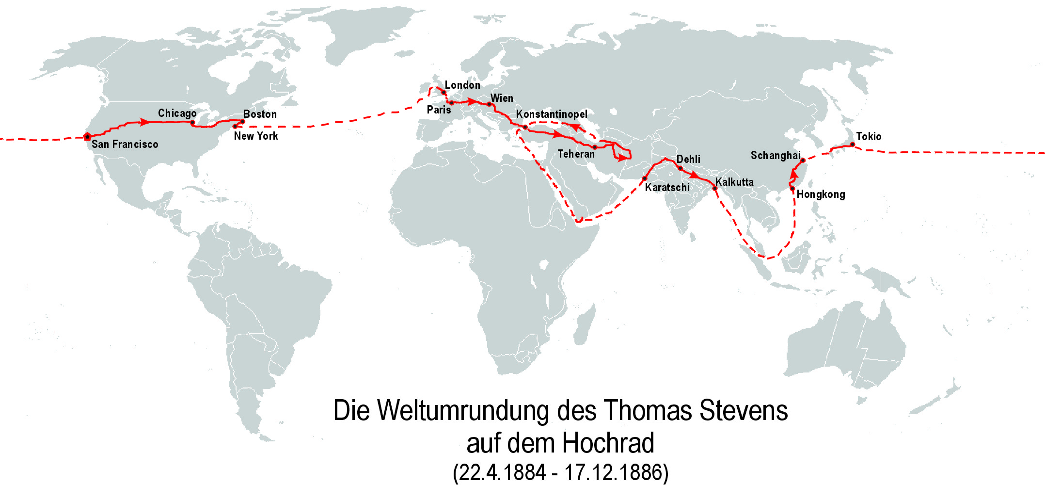 Map of Thomas Stevens's bicycle journey around the world